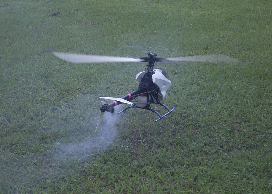 A 30 class RC helicopter in hovering